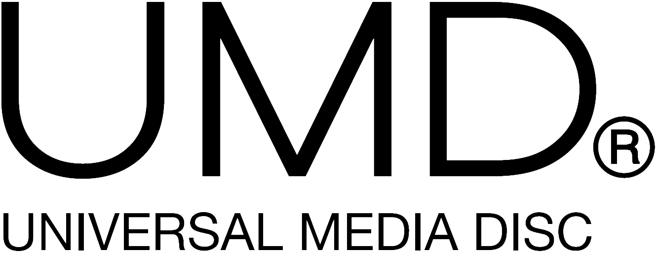 Universal Media Disc logo